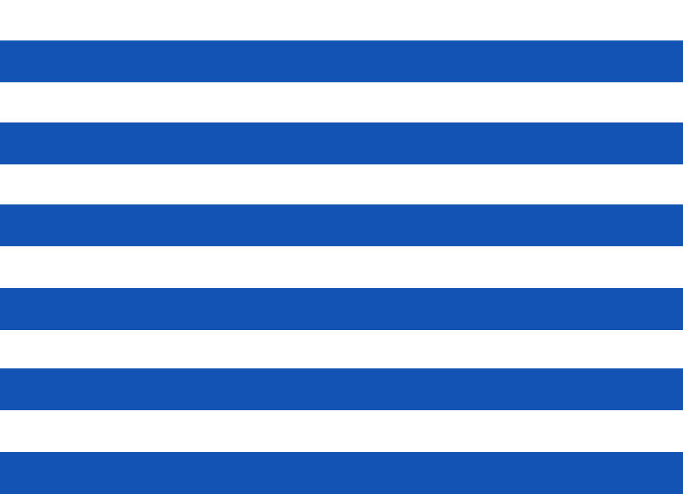 Flag used by the Icelandic Commonwealth from c. 930 to 1262